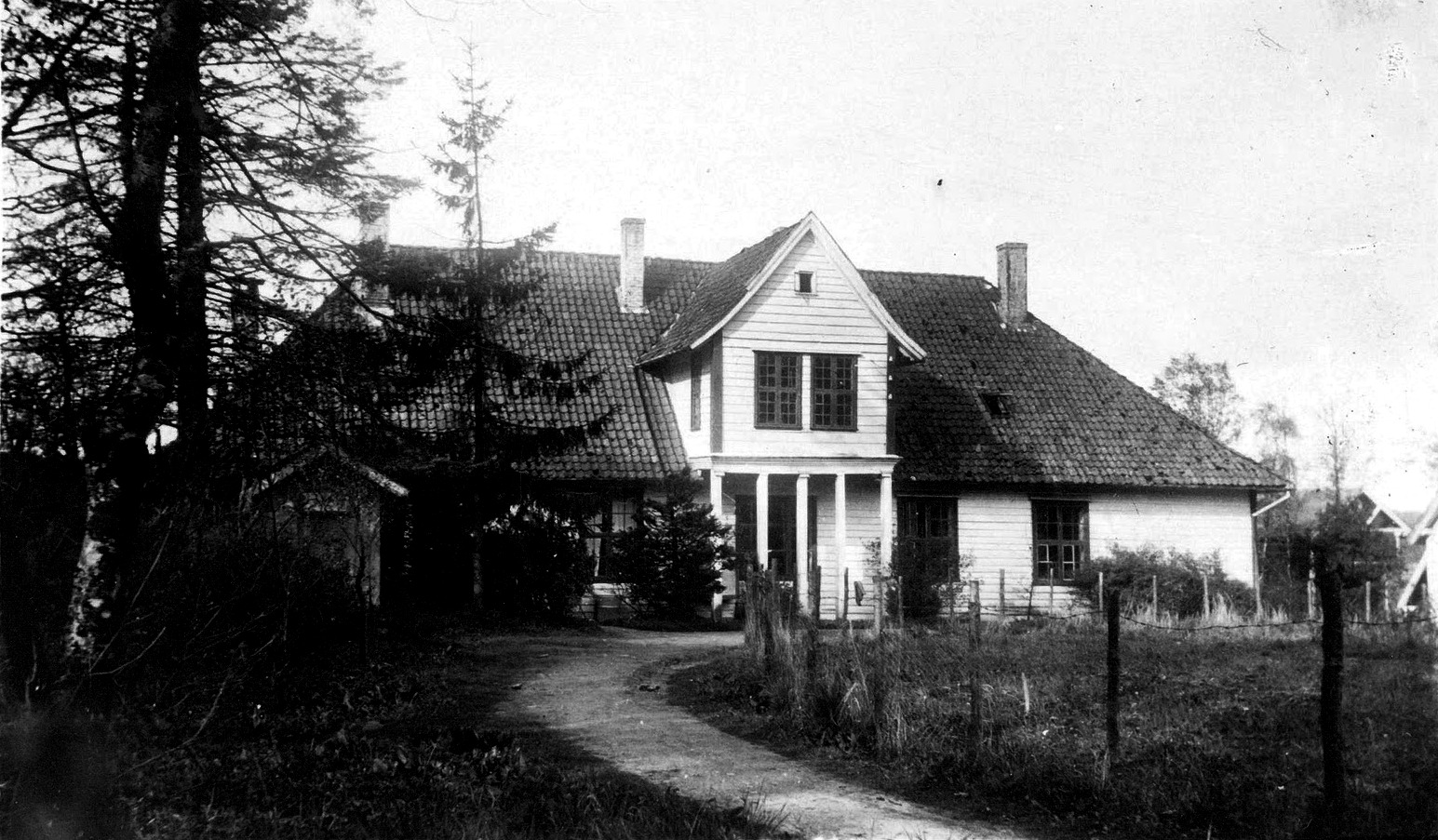 Stend, Bergen, Hordaland